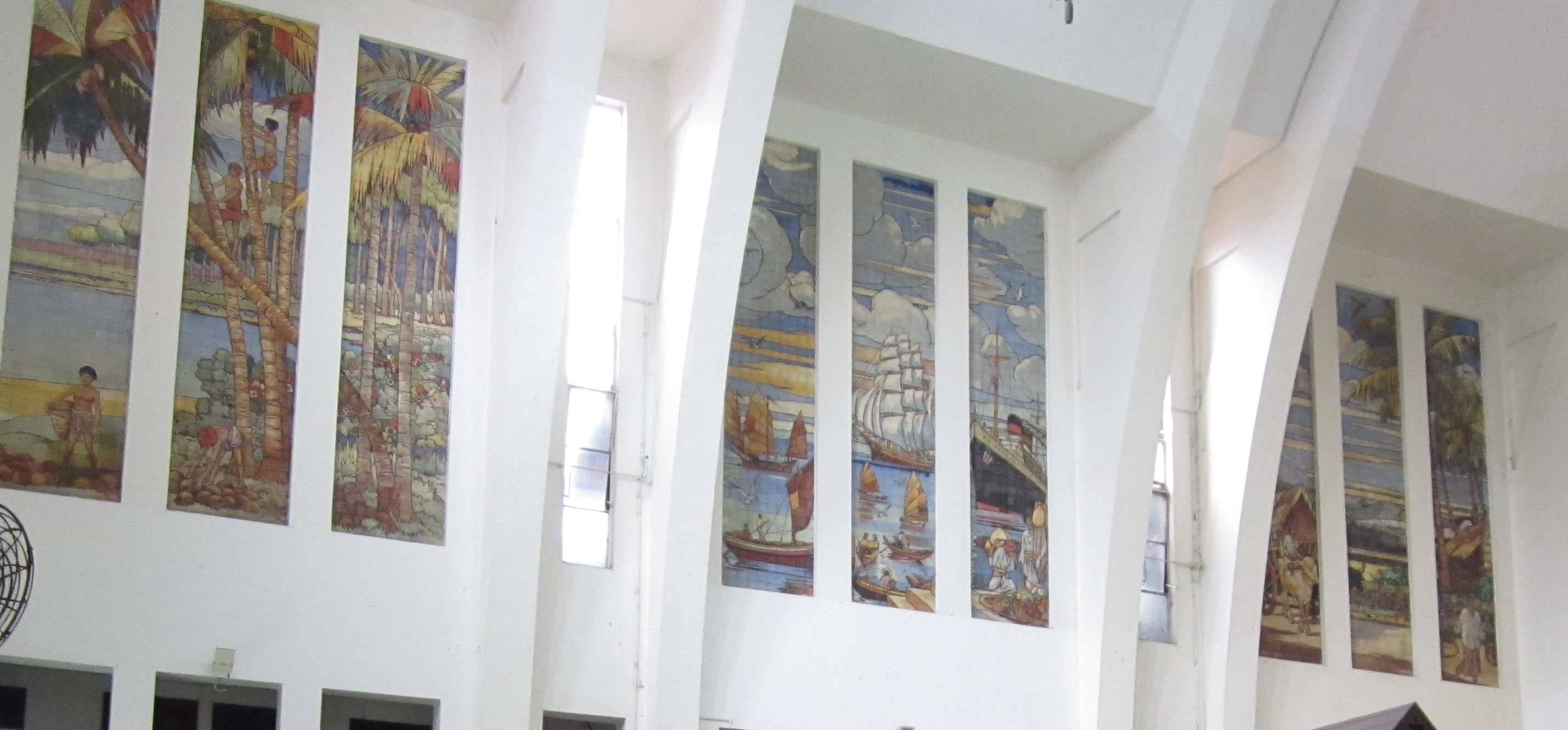 Large paintings overhanging the interior hall of the Tanjong Pagar Railway Station in Singapore, depicting rustic scenes from rural and urban Malaya and Singapore.